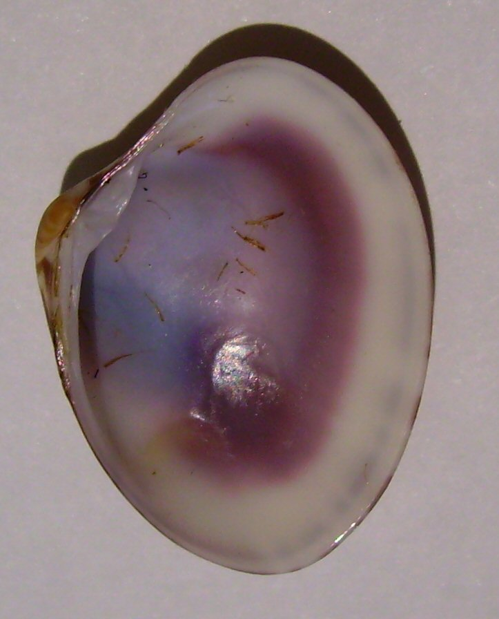 Notocallista multistriata (inside) dredged from north of Pakiri, New Zealand. This work has been released into the public domain by its author, Graham Bould. This applies worldwide. In some countries this may not be legally possible; if so: Graham Bould grants anyone the right to use this work for any purpose, without any conditions, unless such conditions are required by law.